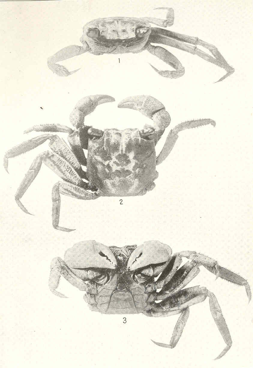 Sesarma (Holometopus) roberti Subject: Crabs, Sesarma, Holometopus Tag: Shellfish